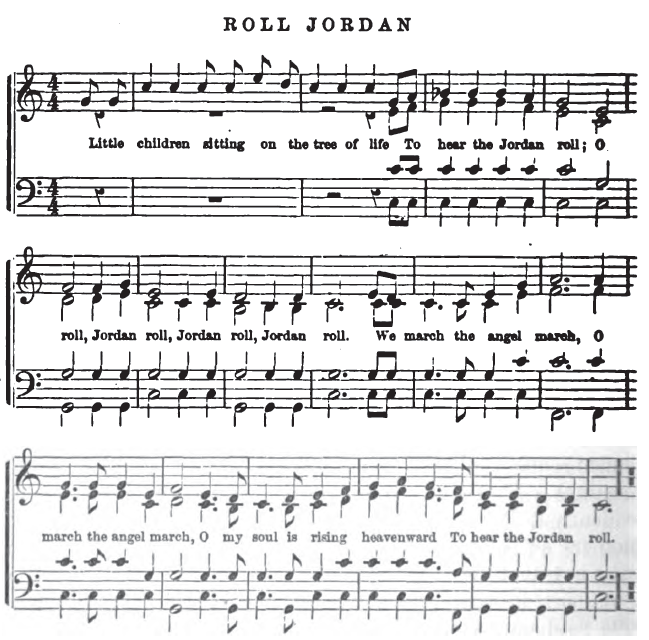 Lyrics and music for "Roll Jordan Roll"